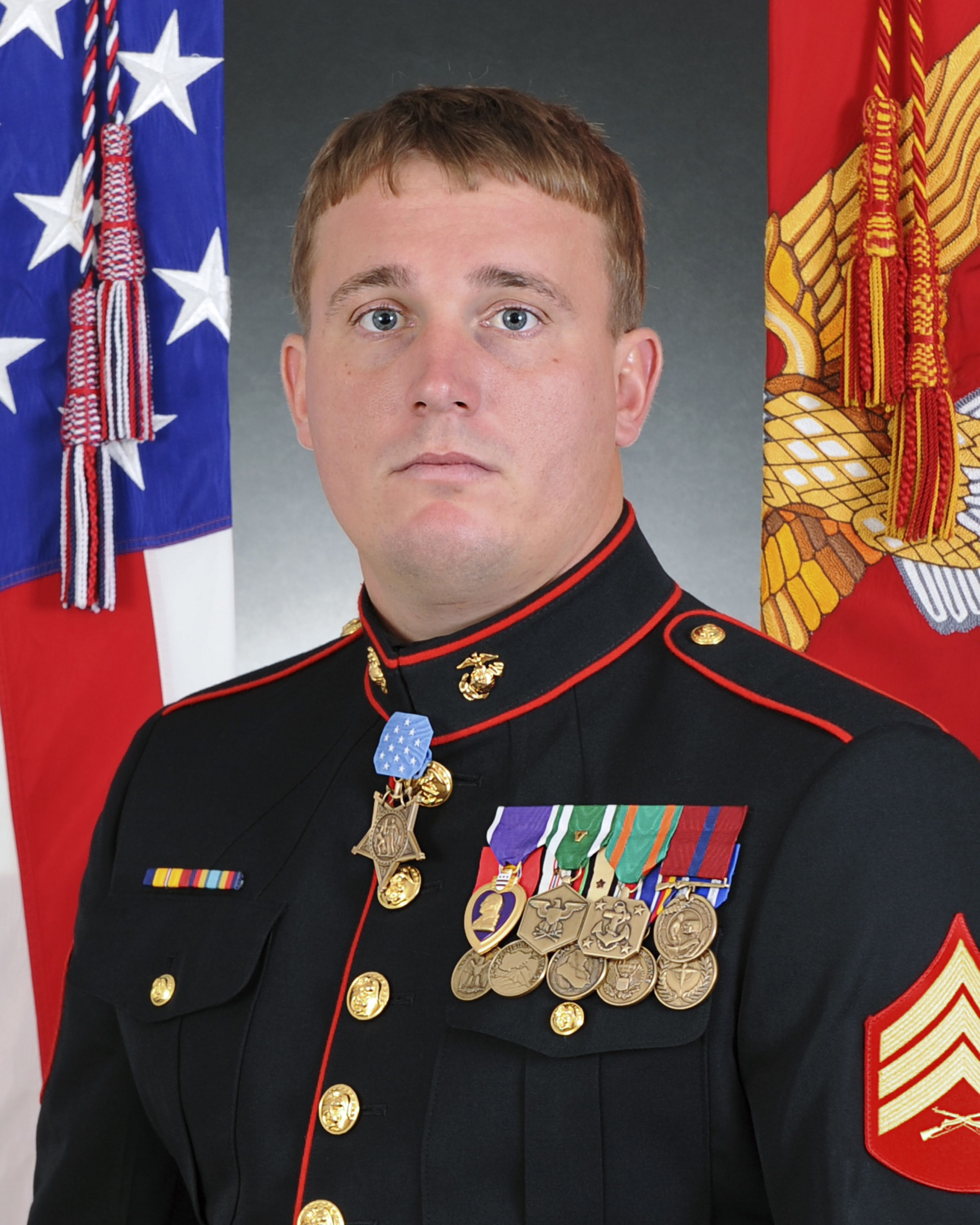 Official Photo of U.S. Marine Sgt. Dakota L. Meyer, Medal of Honor Recipient